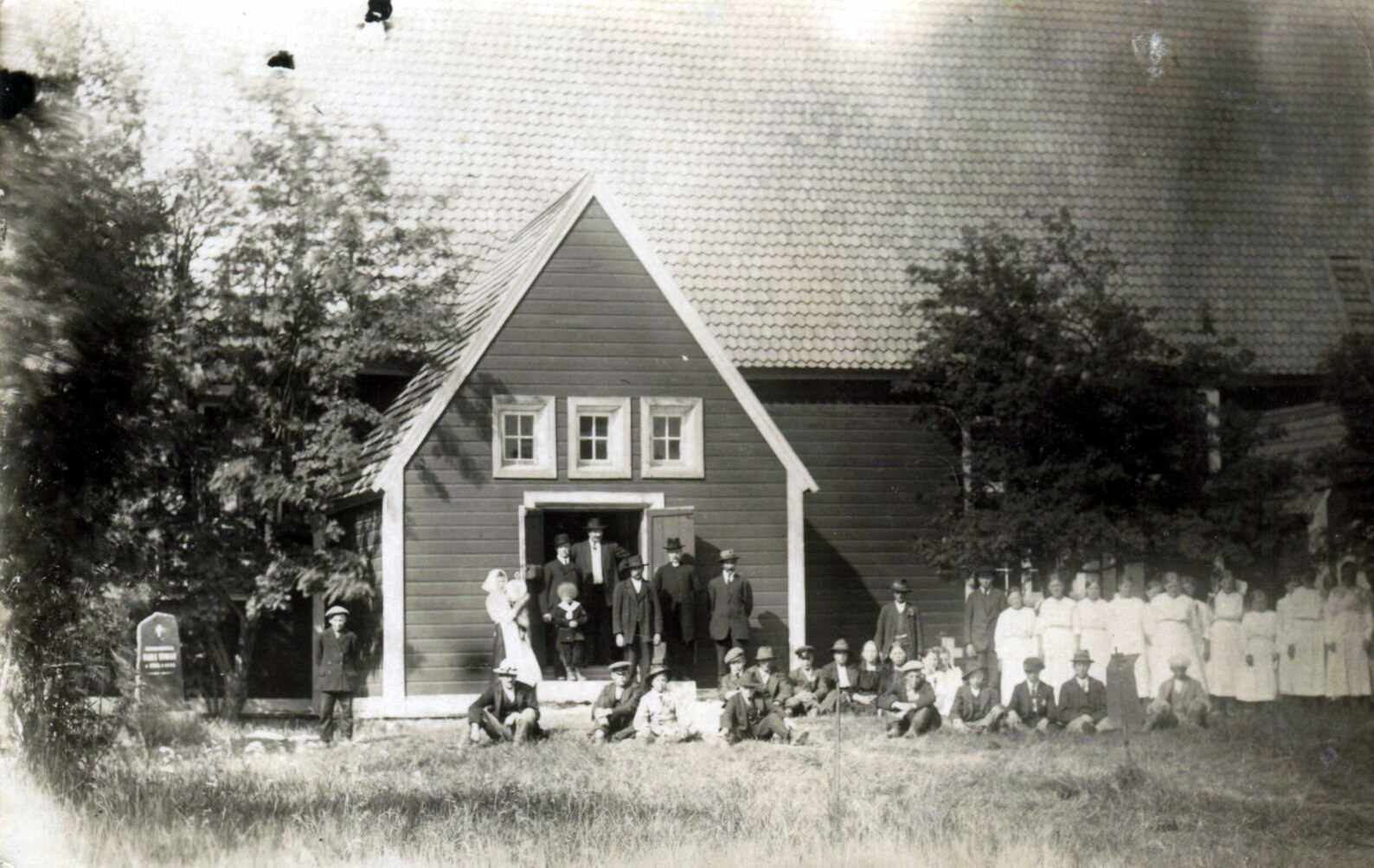 Old church of Salo / Saloinen, near Raahe, Finland. The church burned in 1930